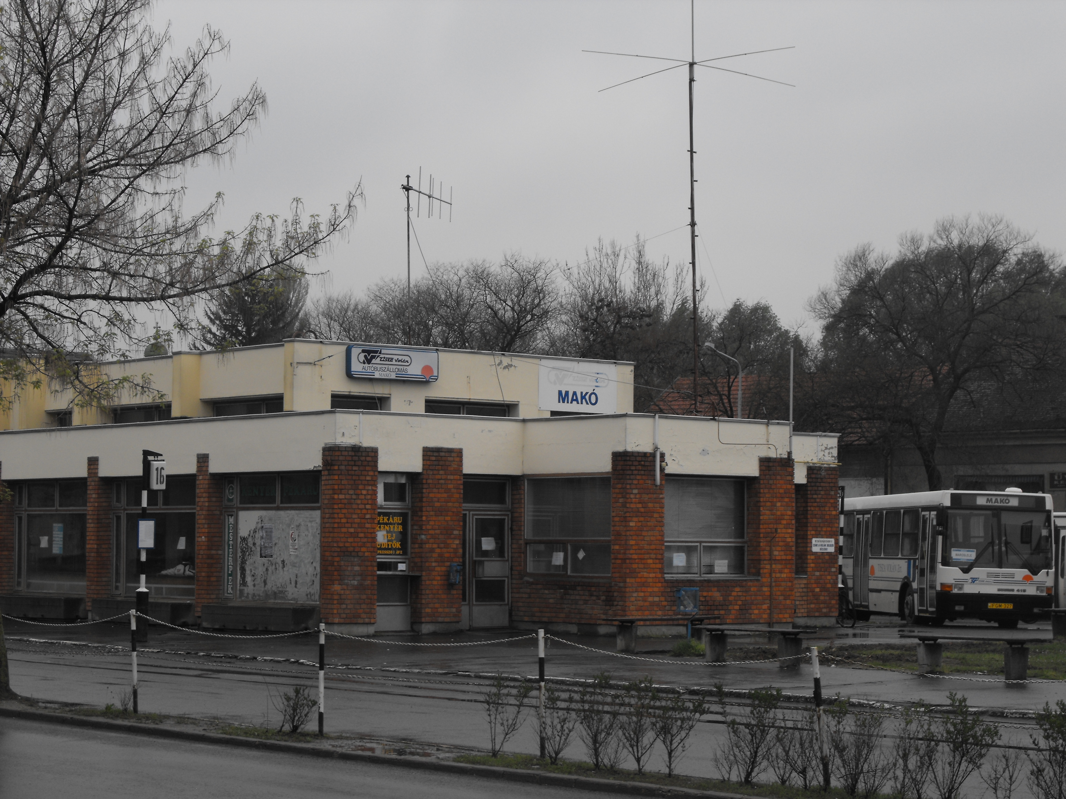 The old building of the Makó Bus Station which had been demolished by now, and a new one was erected on its place according to the plans of Imre Makovecz in the very same year.